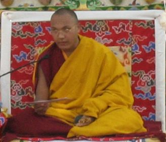 The 17th Karmapa, Ogyen Trinley Dorje.